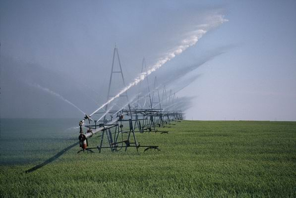 Irrigation.